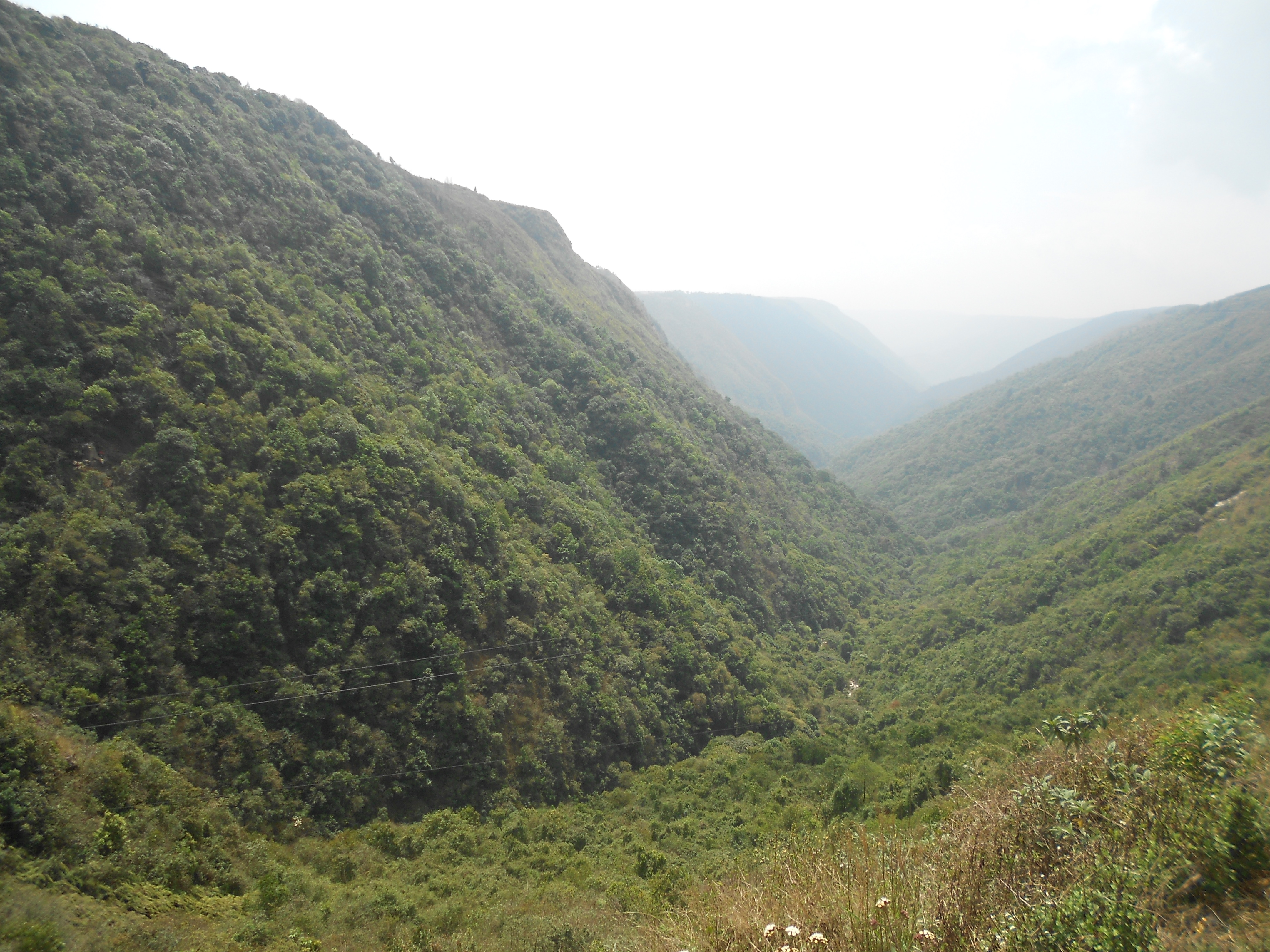 this pic taken at state of meghalaya which is known as "abode of clouds" meghalaya means residence of clouds